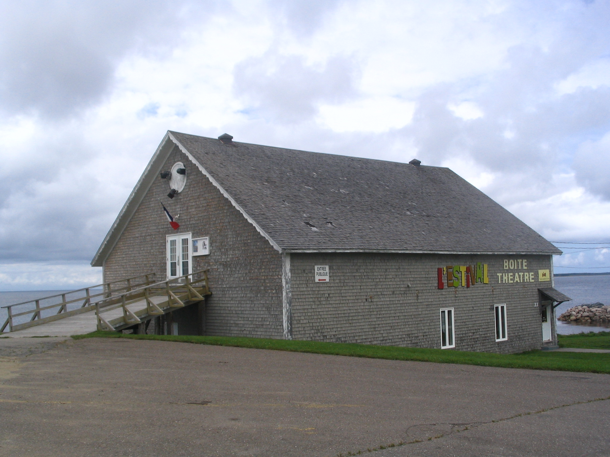 The Boîte-Théâtre, a theater in Caraquet, New Brunswick, Canada.